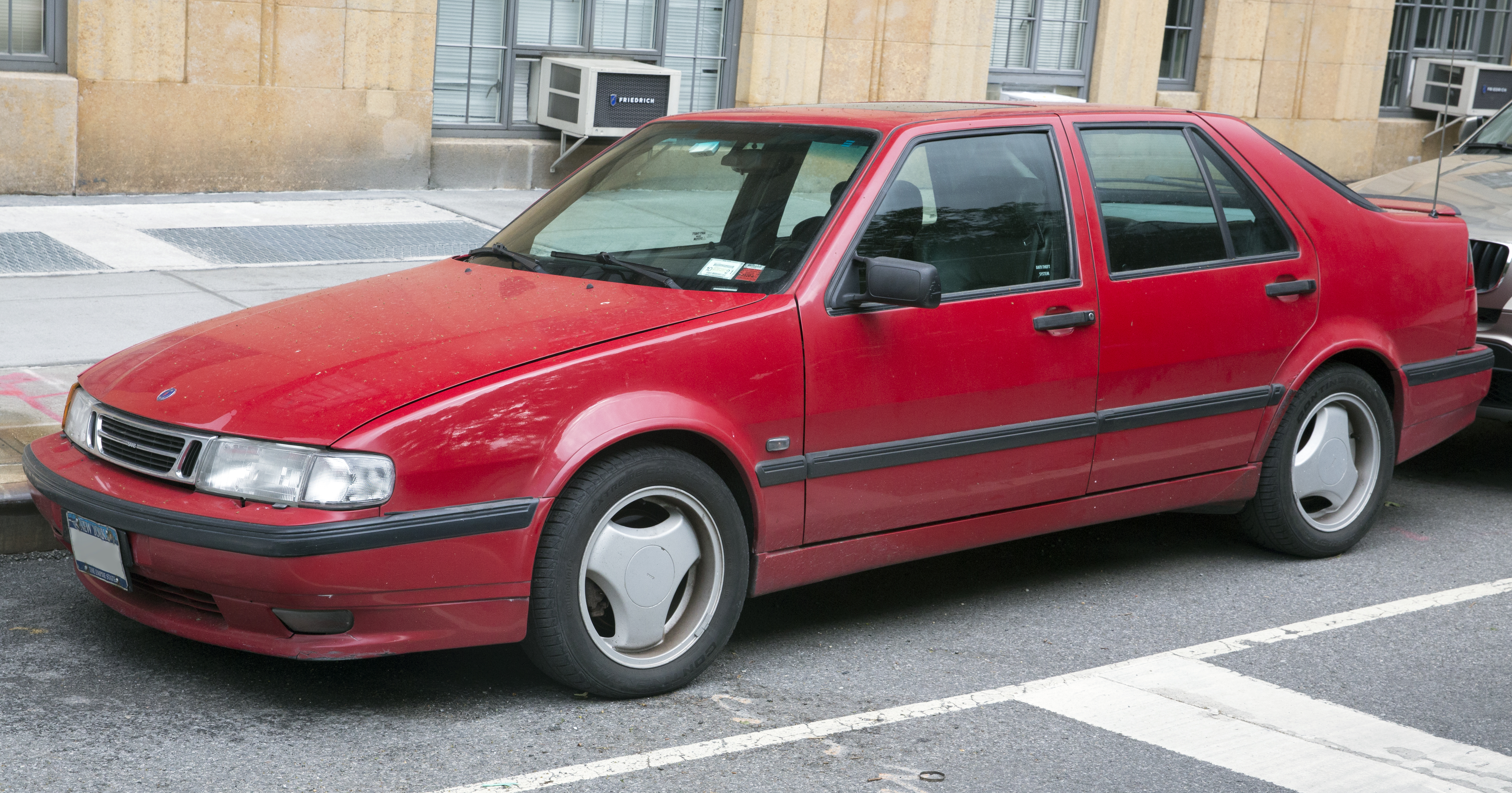 A 1995 Saab 9000 CS Aero. 200hp B234 full-pressure turbo, 4-speed automatic. Built in Trollhättan, as is good and proper.